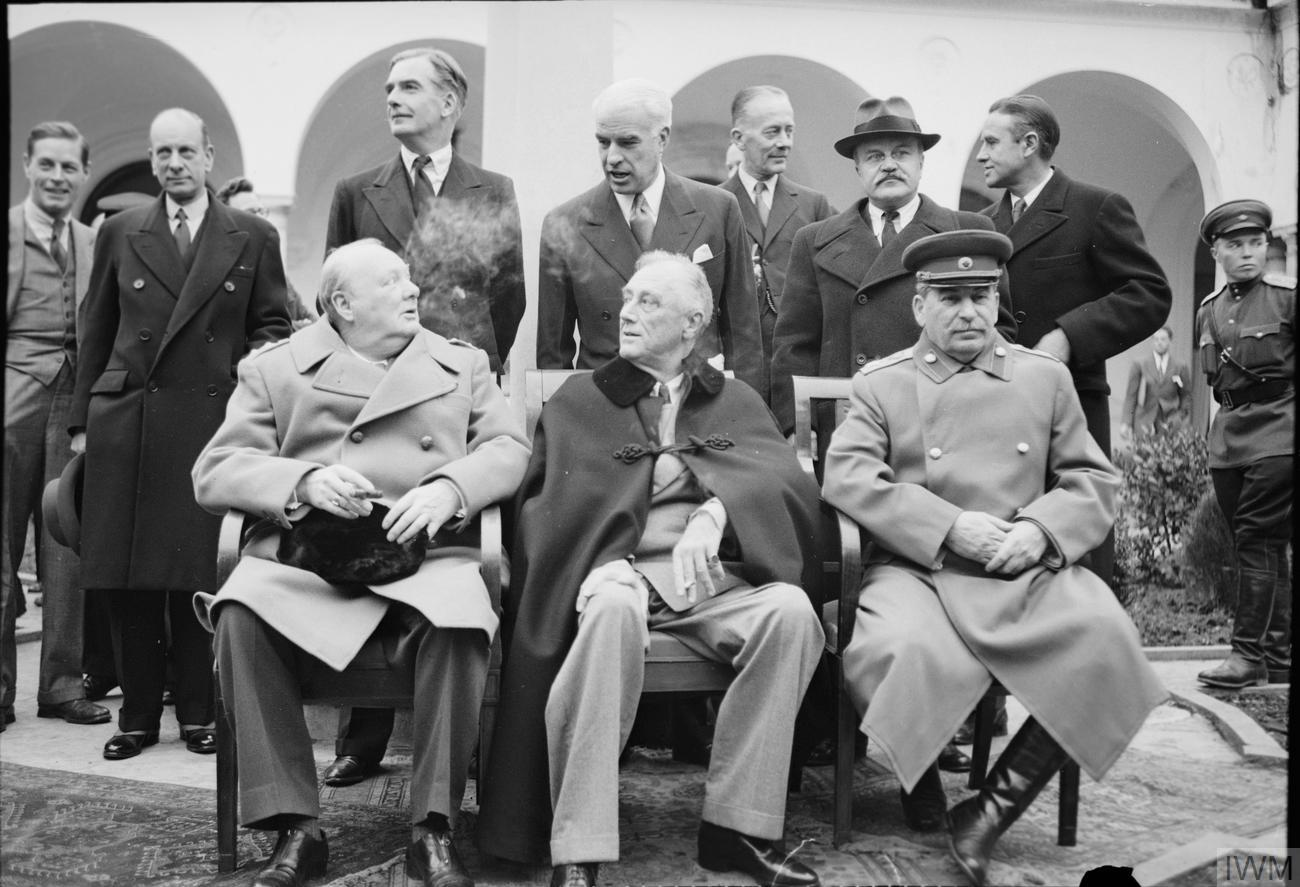 The Yalta Conference, February 1945 The 'Big Three', Winston Churchill, President Roosevelt and Marshal Stalin, sit for a group photograph outside the Livadia Palace during the Yalta Conference. Behind them, left to right, are: an unidentified man; Lord Leathers, the British Minister of War Transport; Rt Hon Anthony Eden MP, the British Foreign Secretary; Mr Edward Stettinius, the American Secretary of State; Rt Hon Sir Alexander Cadogan, the British Permanent Under-Secretary of State for Foreign Affairs; Mr Vyacheslav Molotov, the Soviet Commissar for Foreign Affairs; and Mr Averell Harriman, the American Ambassador in Moscow. Churchill is speaking to Stettinius.